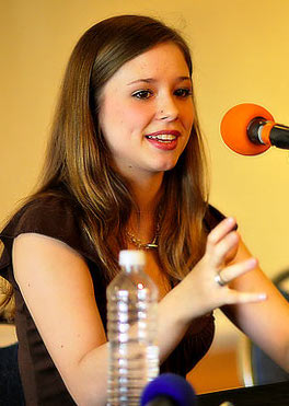 Brittney Karbowski at Anime Supercon